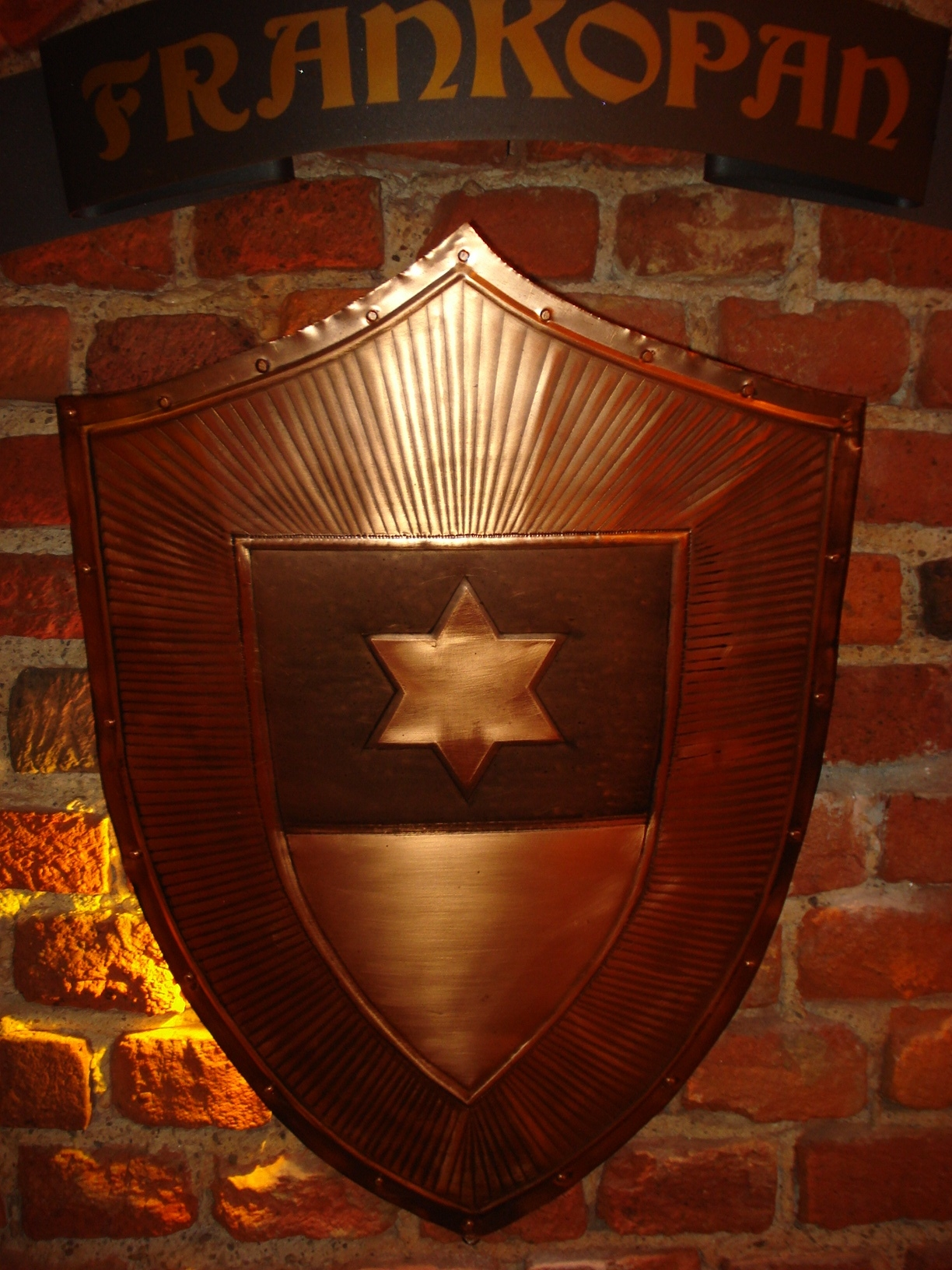 Old coat of arms of Frankopan family, princes of Krk (until 1430)